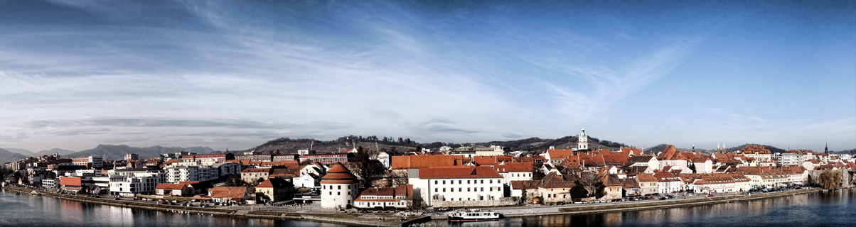 Maribor Lent panorama